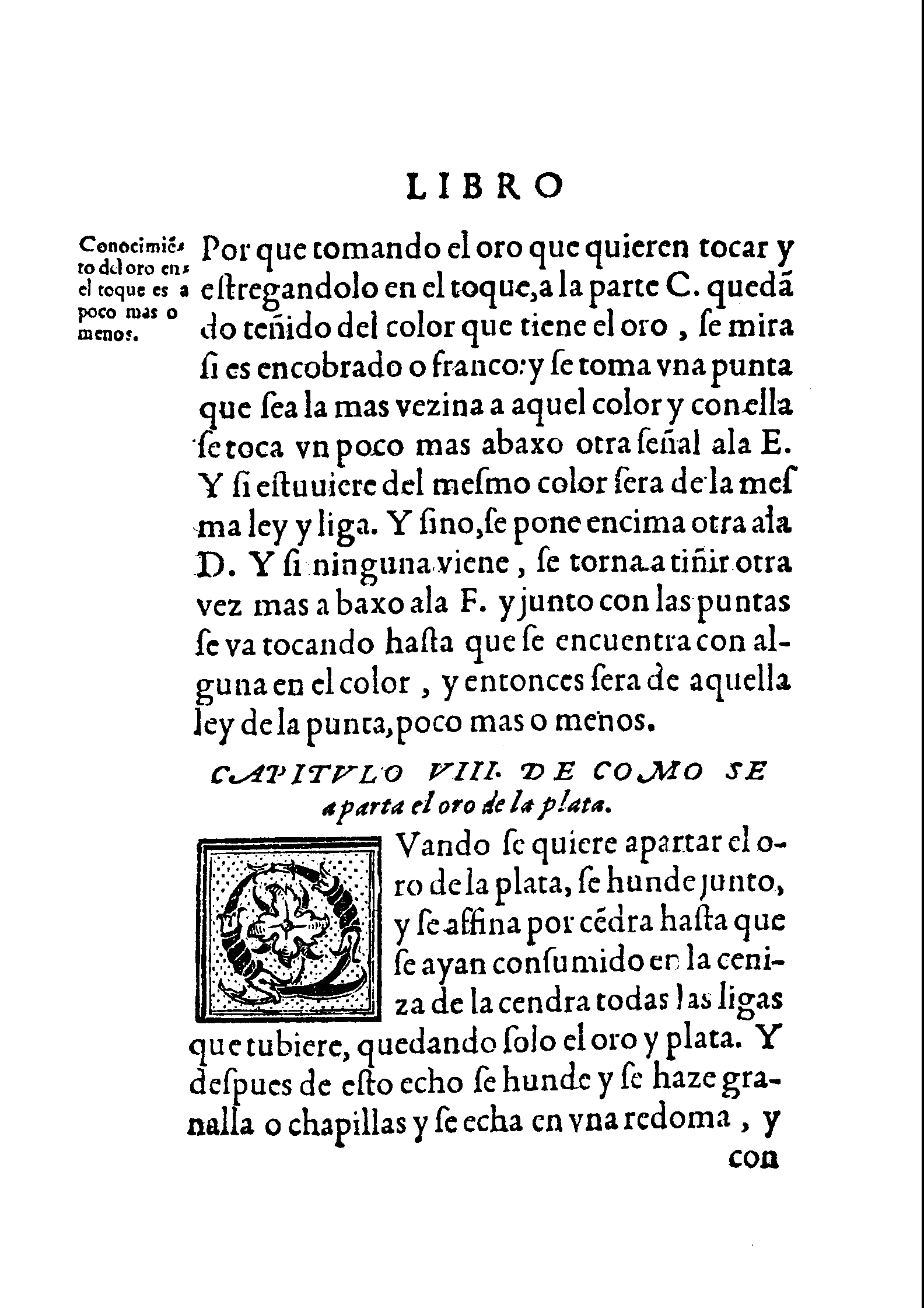 facsimile reproduction of page 38